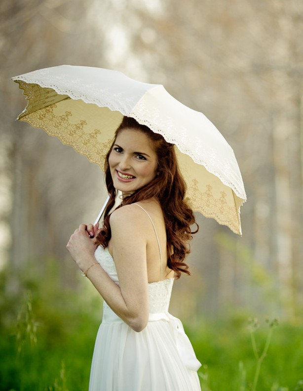 Bride with Sun Umbrella - Amarella Sun Accessories